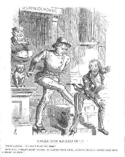 "Uncle Sam kicked out!" - Canadian political cartoon.